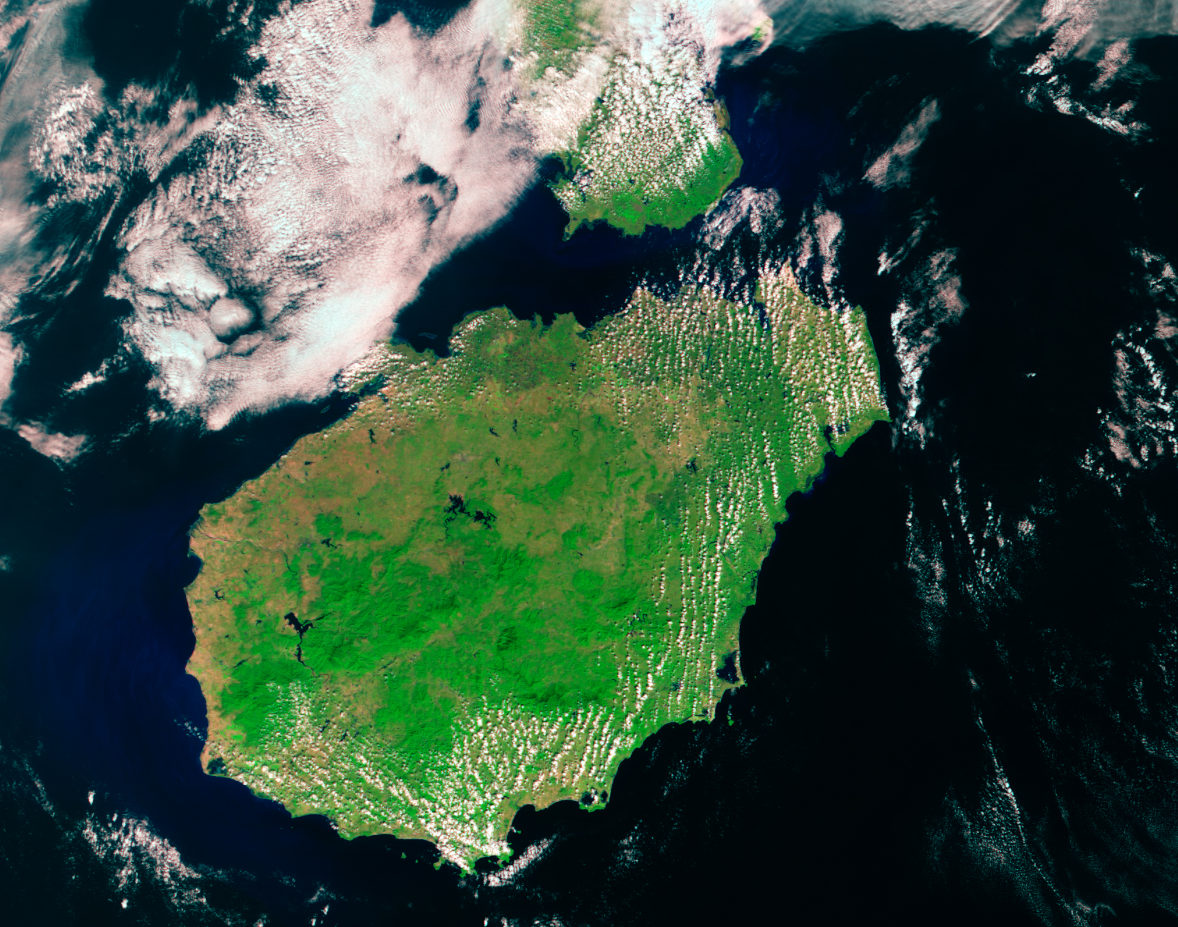 Satelite image of Hainan Island — in the South China Sea. Located in Hainan Province, far Southeastern China. Separated from Leizhou Peninsula to the north in Guangdong Province, by the shallow and narrow Qiongzhou Strait.